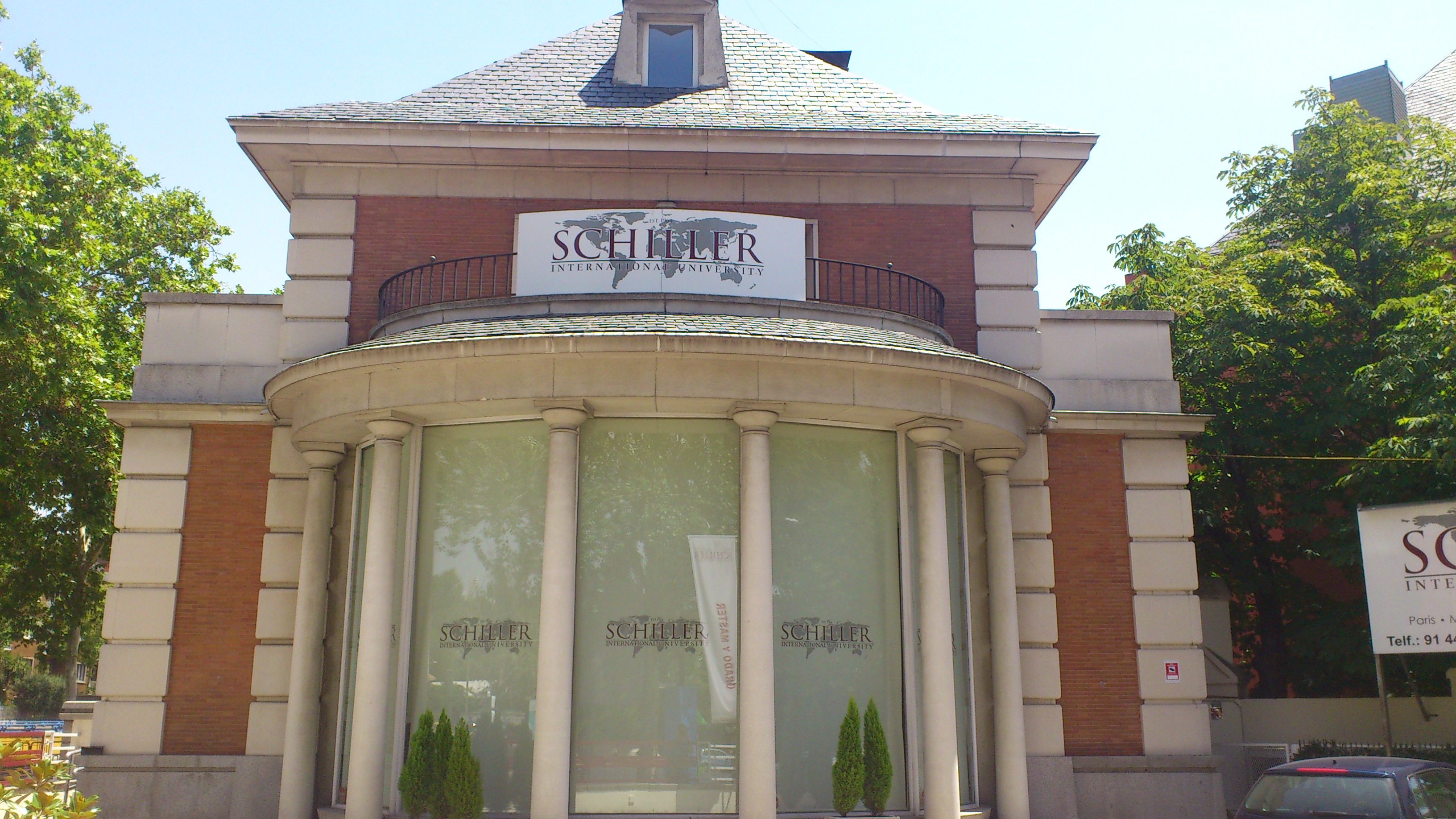 SIU Madrid